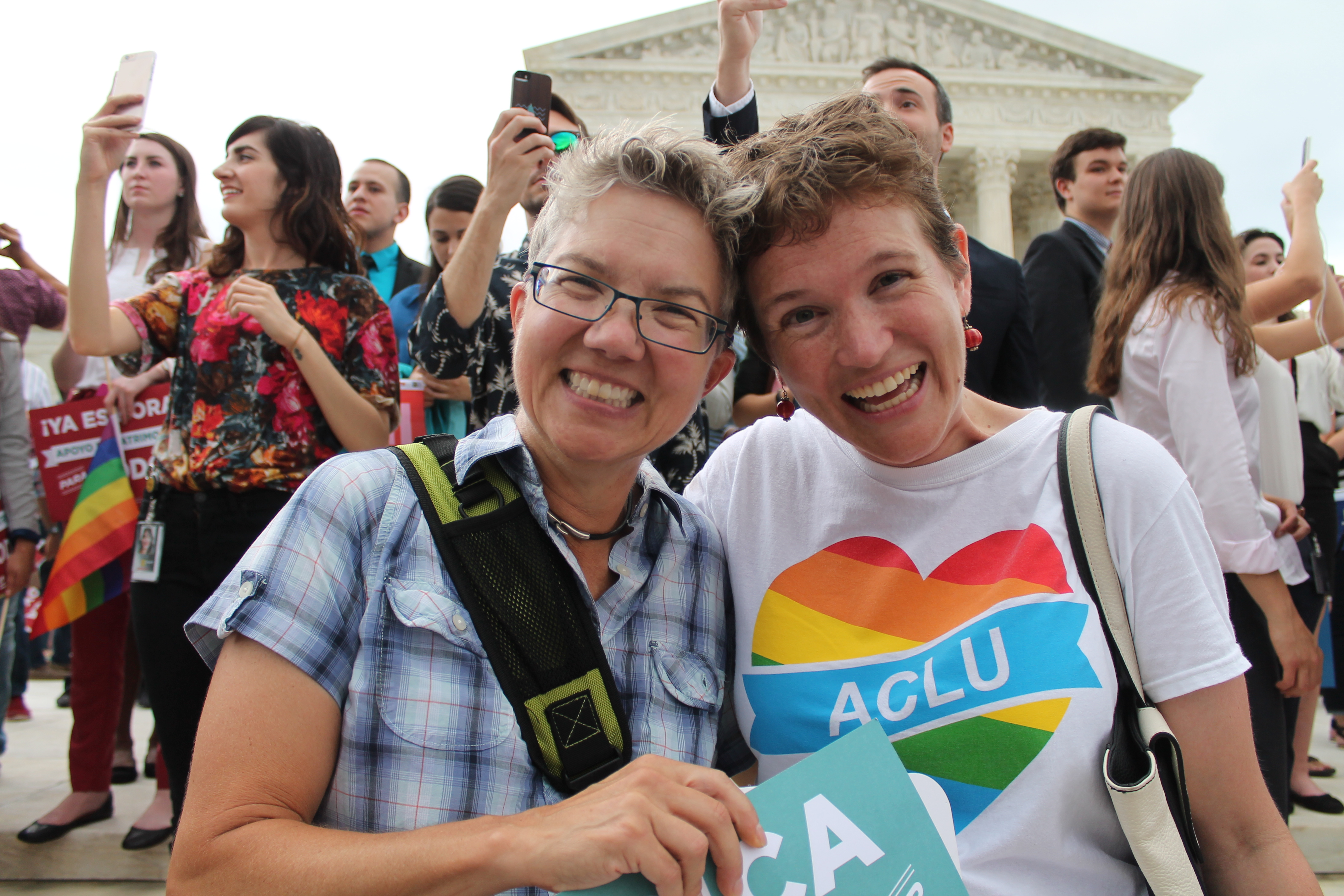 MARRIAGE EQUALITY DECISION DAY RALLY in front of the US Supreme Court on First Street between East Capitol Street and Maryland Avenue, NE, Washington DC on Friday morning, 26 June 2015 by Elvert Barnes Protest Photography Marriage Equality / USA Learn more about the SCOTUS Obergefell v. Hodges case on Wikipedia at Visit Elvert Barnes MARRIAGE EQUALITY same-sex civil unions ongoing project at